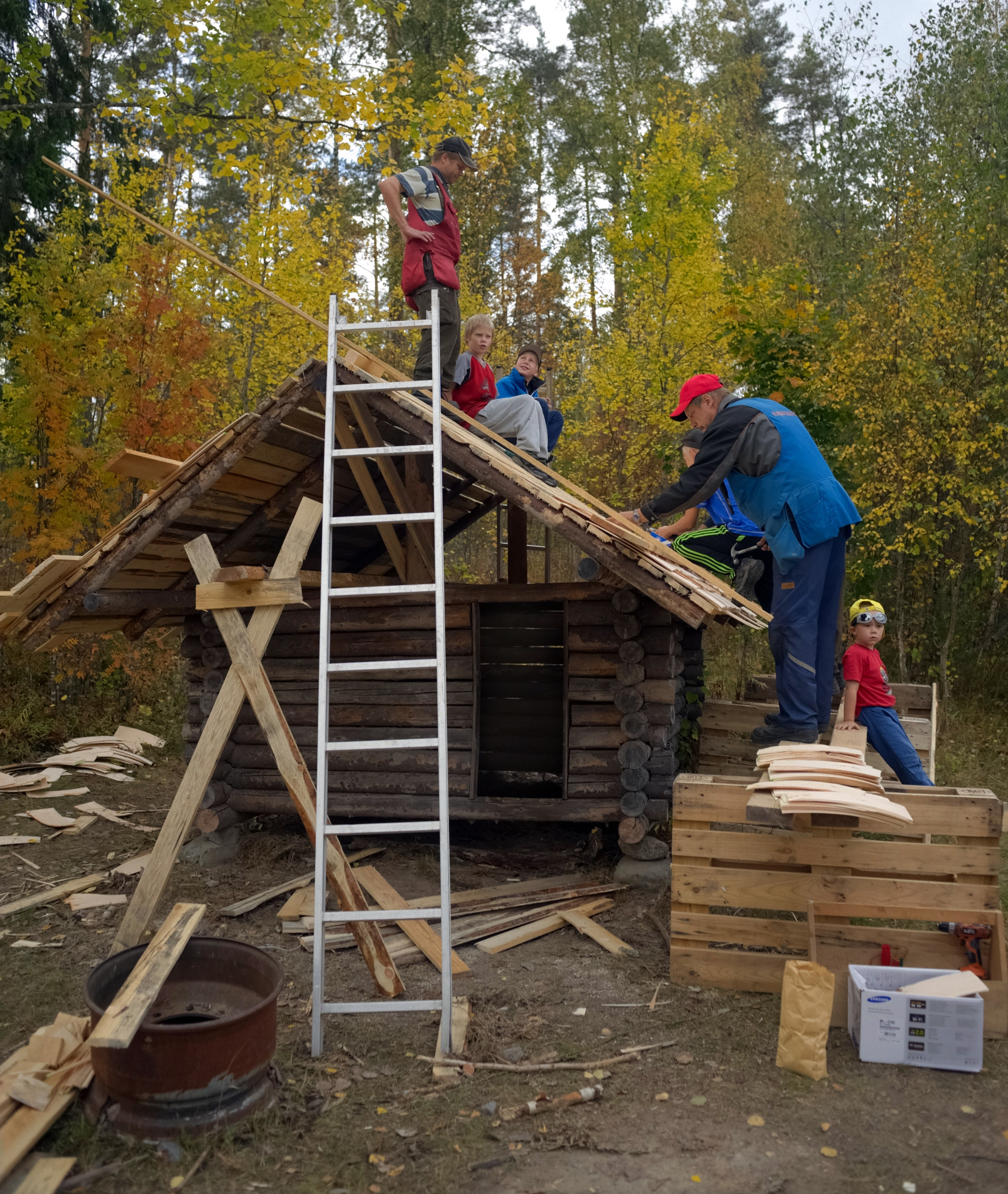 Shingle Roof in Ylämaa, Finland